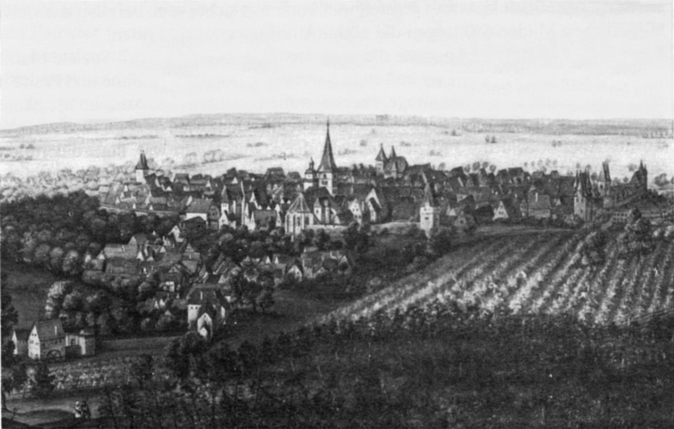 The city of Bensheim in A.D. 1612